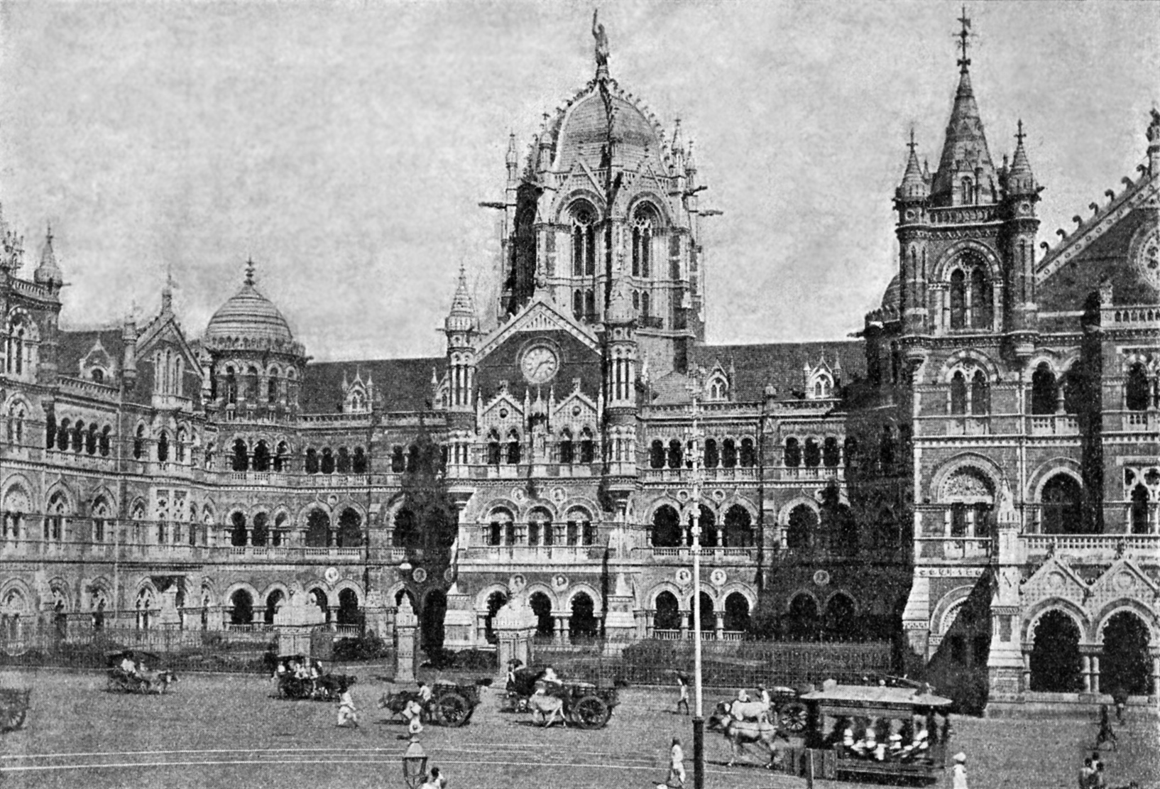 British India. Railroad station in Bombay